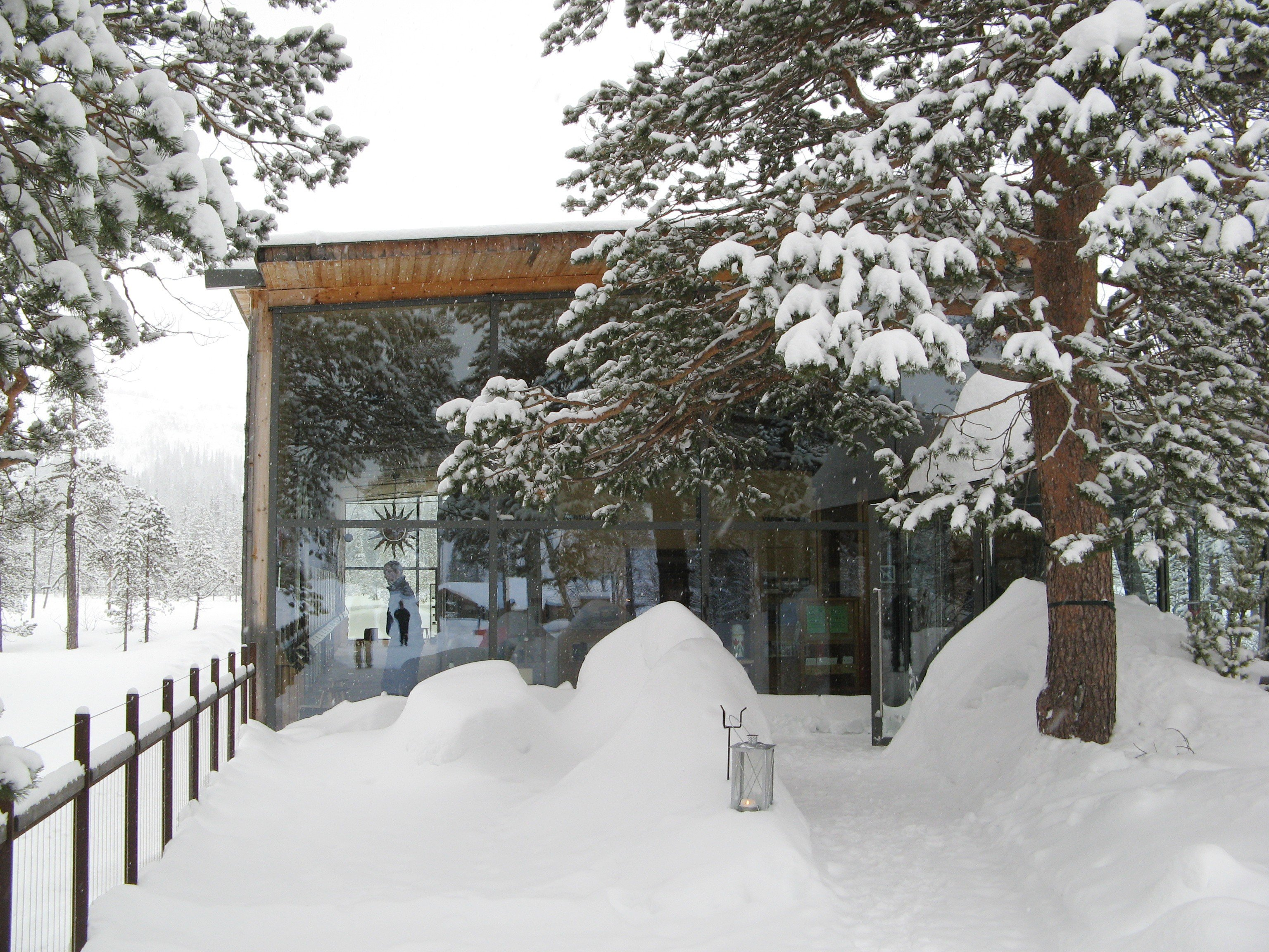 Naturum (nature information center) in Fulufjället national park